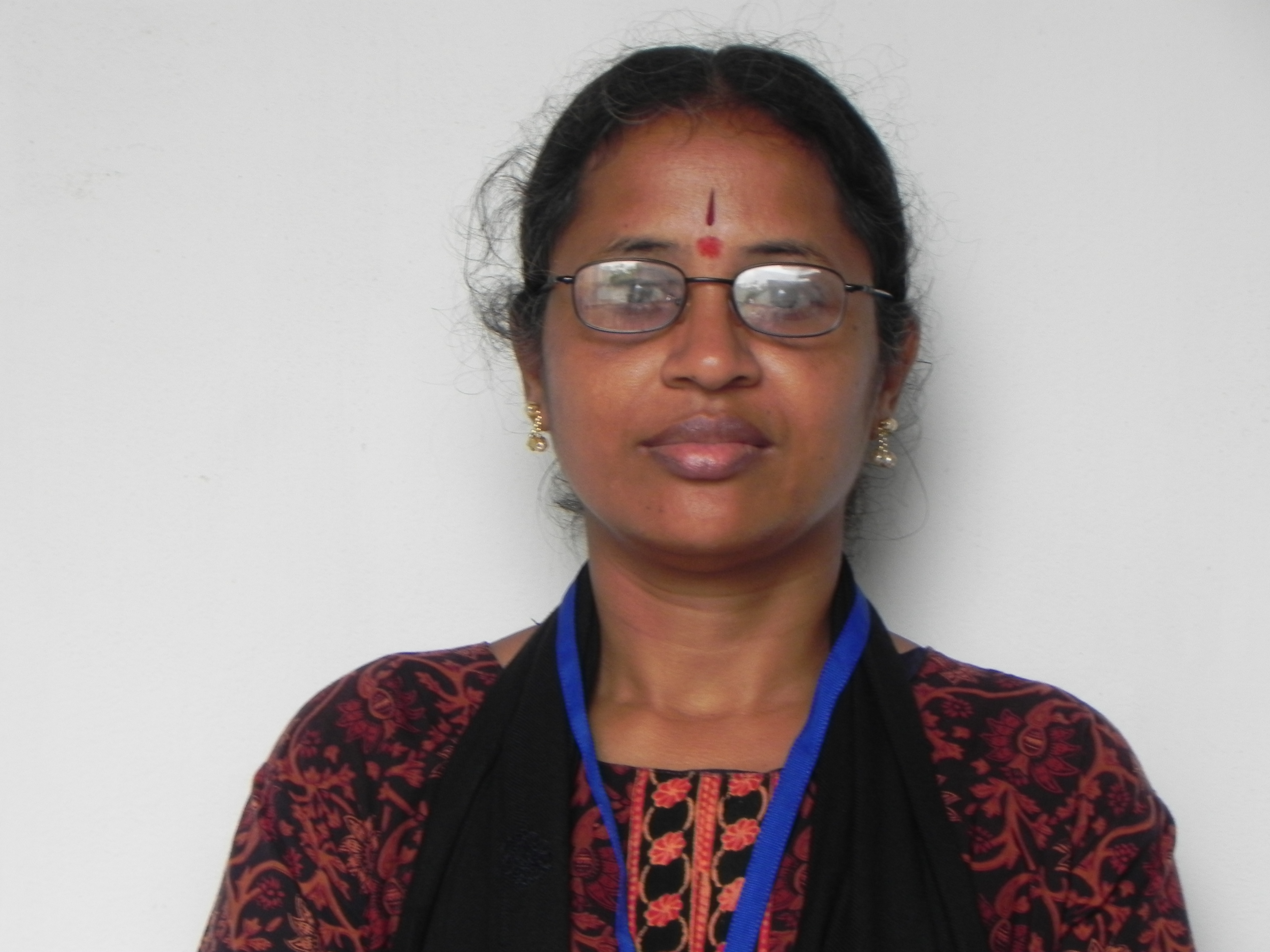 హేమ. ఎమ్